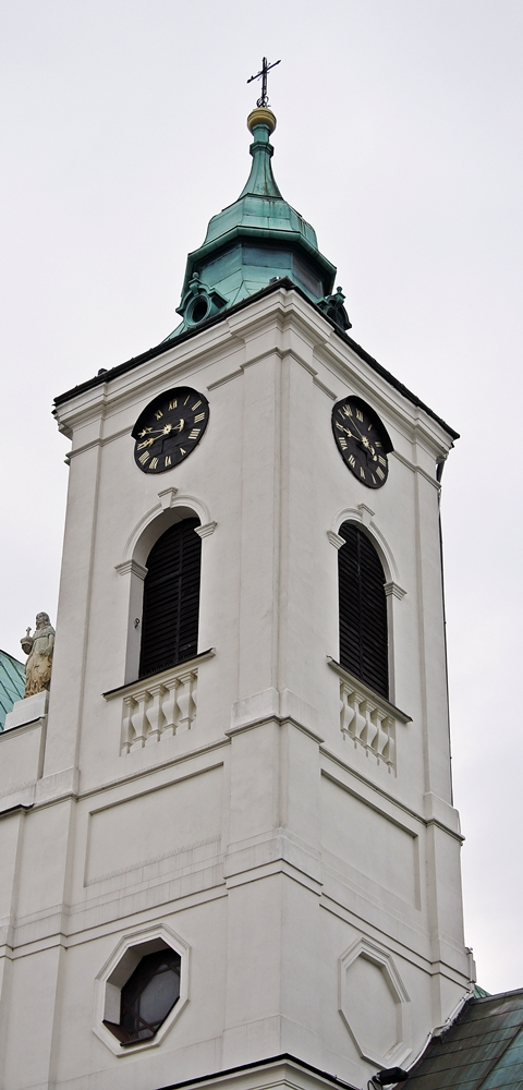 Turris Davidis - wieża zegarowa kościół Św. Krzyża w Rzeszowie